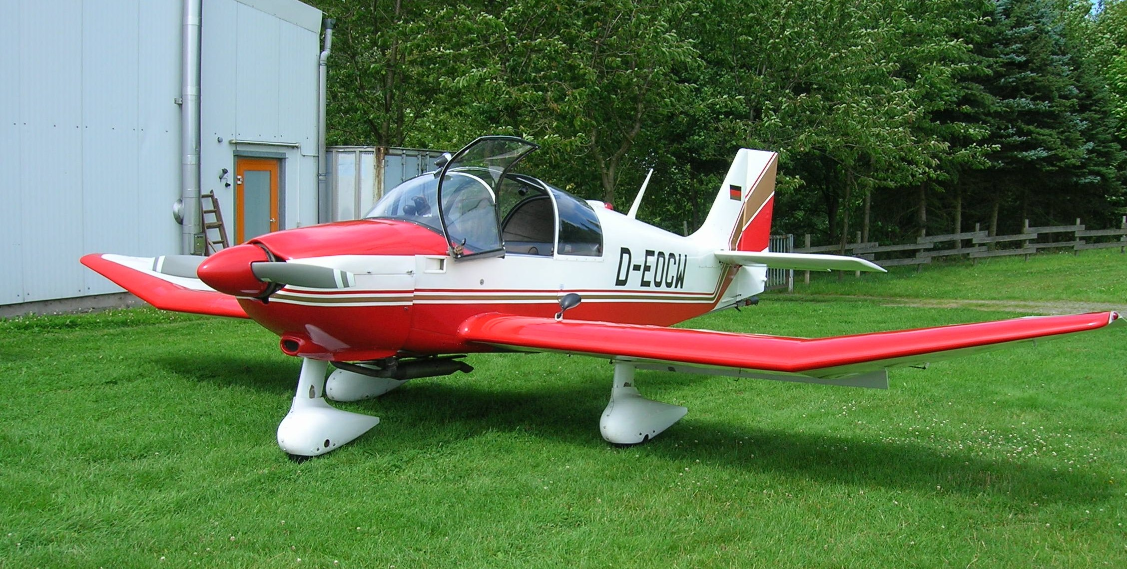 Robin DR300/180R at german airfield Schmallenberg-Rennefeld (EDKR).